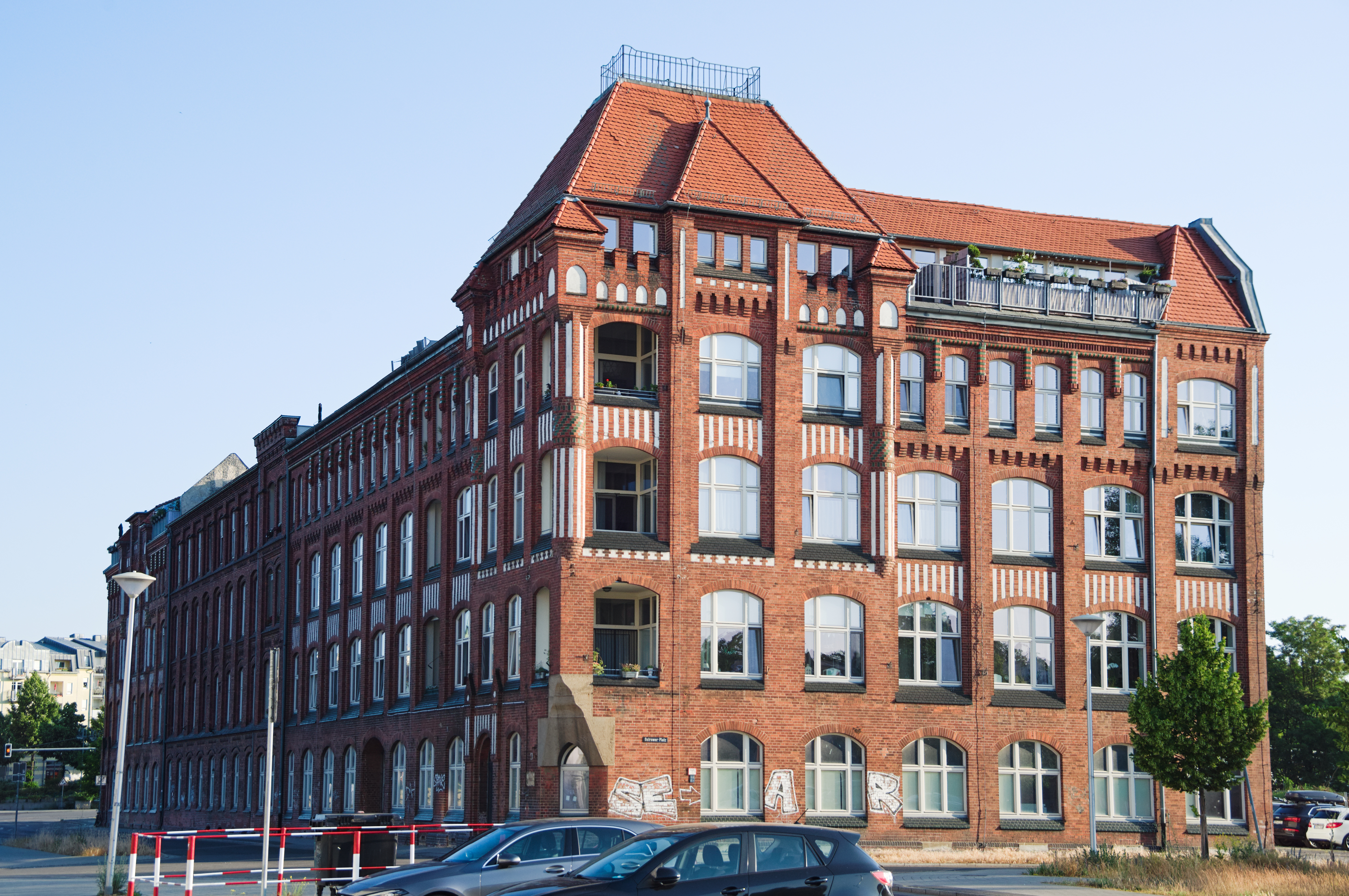 After decades of decay and neglect, the listed Enke-Fabrik in Cottbus-Mitte has been partially refurbished as an upscale residential building. Complete rehabilitation is planned to be completed in the near future. Shown here is the façade facing Ostrower Platz.